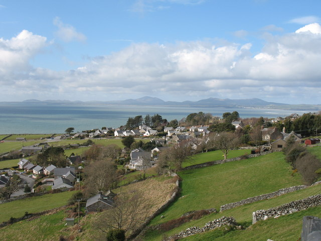 Llanfair